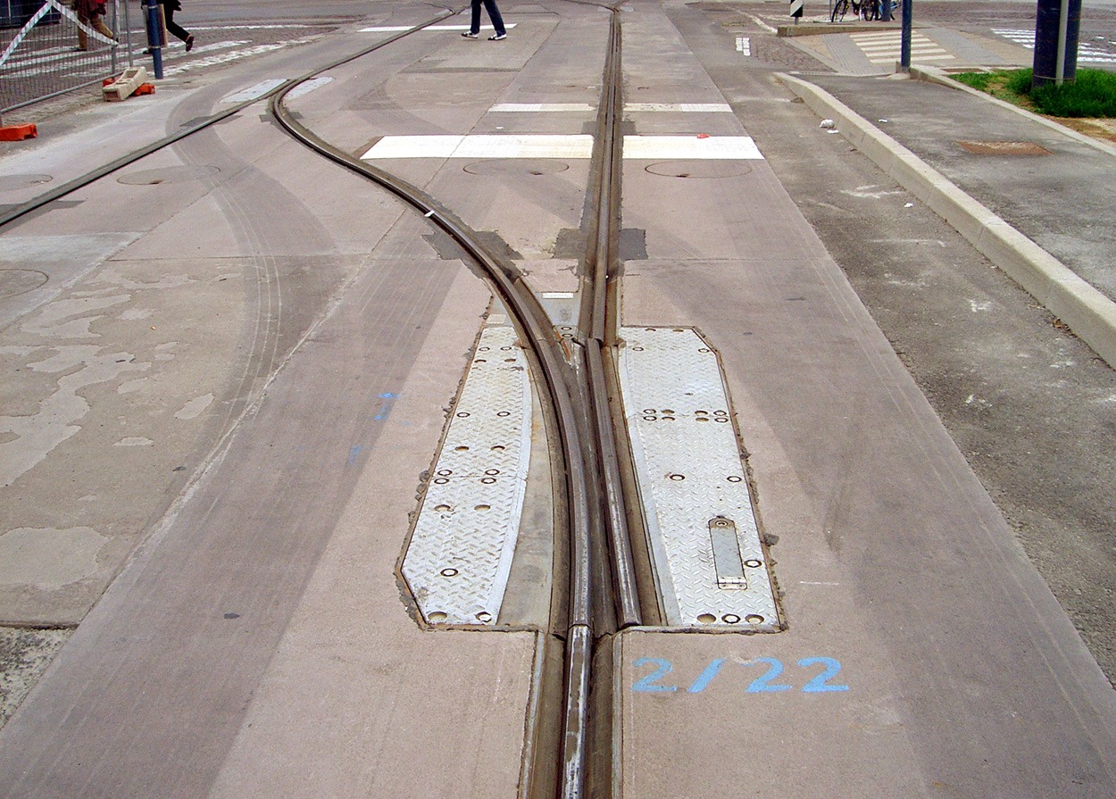 A Translohr point ('switch' in American)